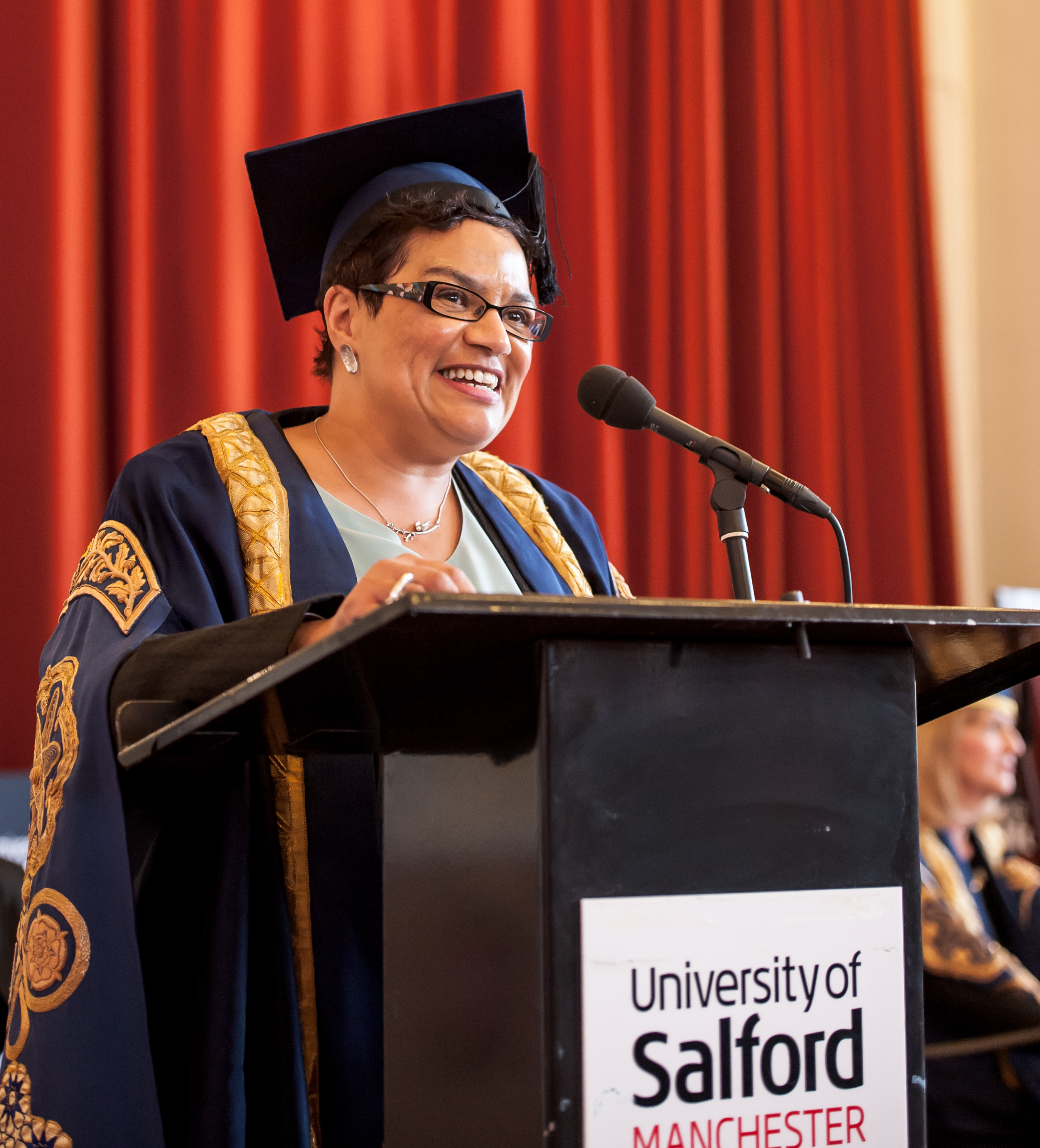 Sixth Chancellor of the University of Salford Installation of Chancellor Professor Jackie Kay MBE - University of Salford, Peel Hall Sixth Chancellor of the University of Salford, April 29, 2015